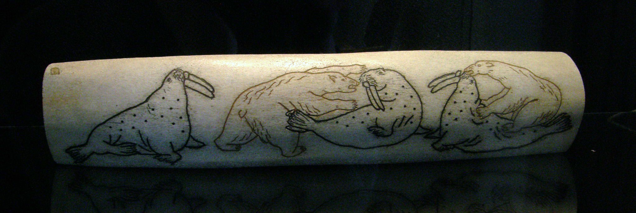 A 1940's walrus tusk engraving depicting polar bears hunting walrus. The carving was made by Chukchi carvers in the 1940's and is located in the Regional Museum, Magadan, Russia. Commons:Category:Odobenus rosmarus Commons:Category:Chukchi